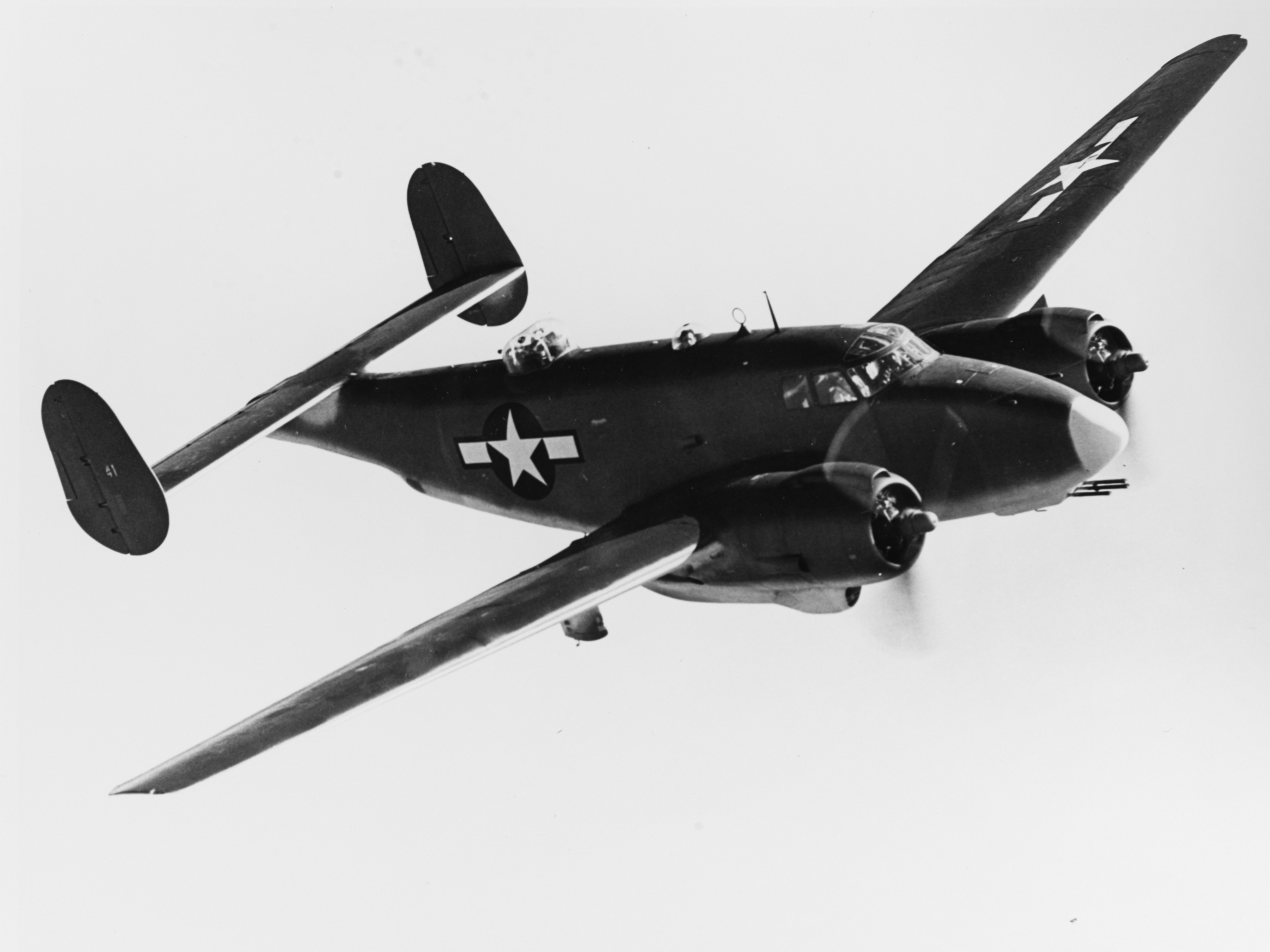 A U.S. Navy Lockheed PV-2 Harpoon in flight, probably 1944.